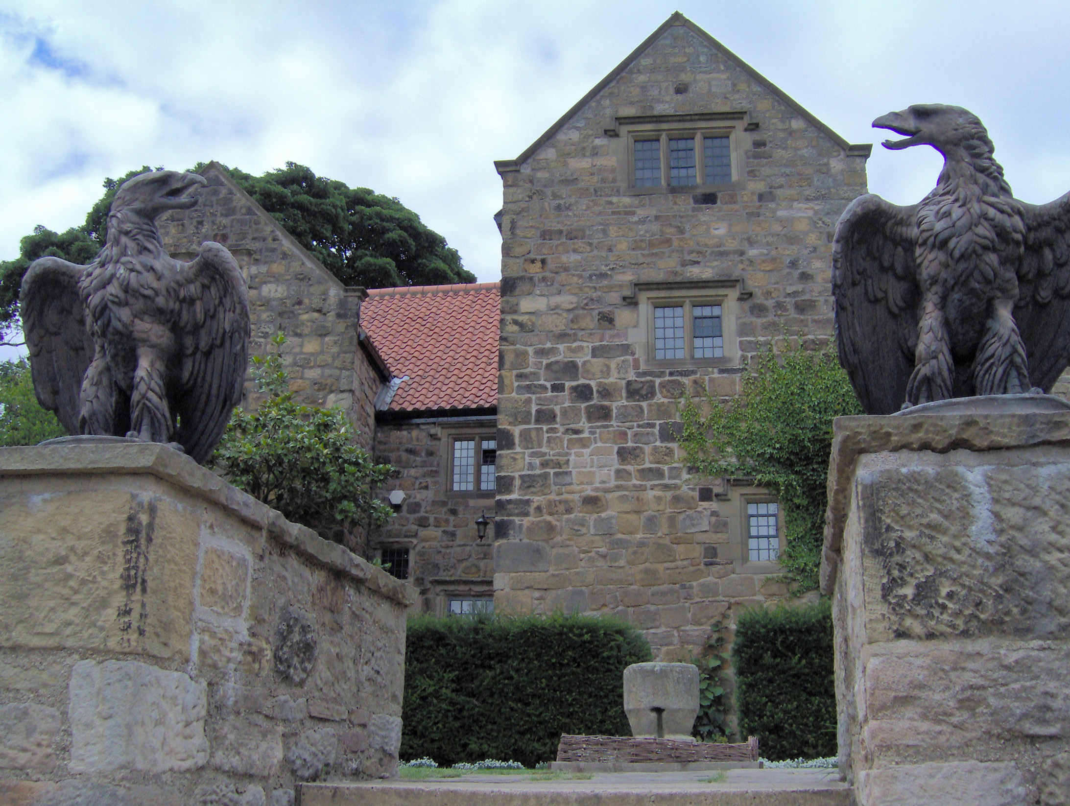 Washington Old Hall, in Washington (Tyne and Wear), ancestral home of the family of George Washington. Taken by ProhibitOnions, 2005.